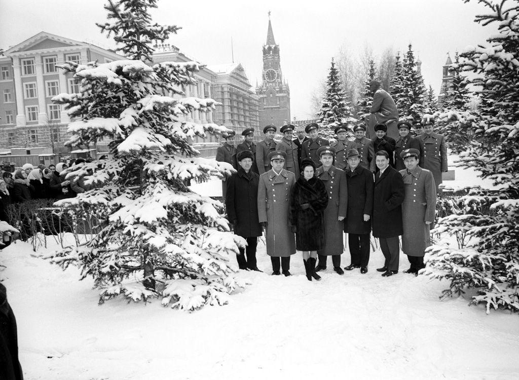 “Soviet Cosmonauts in Moscow's Kremlin”. Soviet Cosmonauts in Moscow's Kremlin. First row, left to right: Alexei Yeliseyev, Georgy Beregovoy, Valentina Tereshkova, Vladimir Shatalov, Vladislav Volkov, Boris Yegorov, Georgy Shonin. Second row: German Titov, Valery Bykovsky, Pavel Belyayev, Pavel Popovich, Konstantin Feoktistov, Alexei Leonov, Colonel-General of Aviation Nikolai Kamanin, Viktor Gorbatko, Valery Kubasov, Andrian Nikolayev, Yevgeny Khrunov, Anatoly Filipchenko.